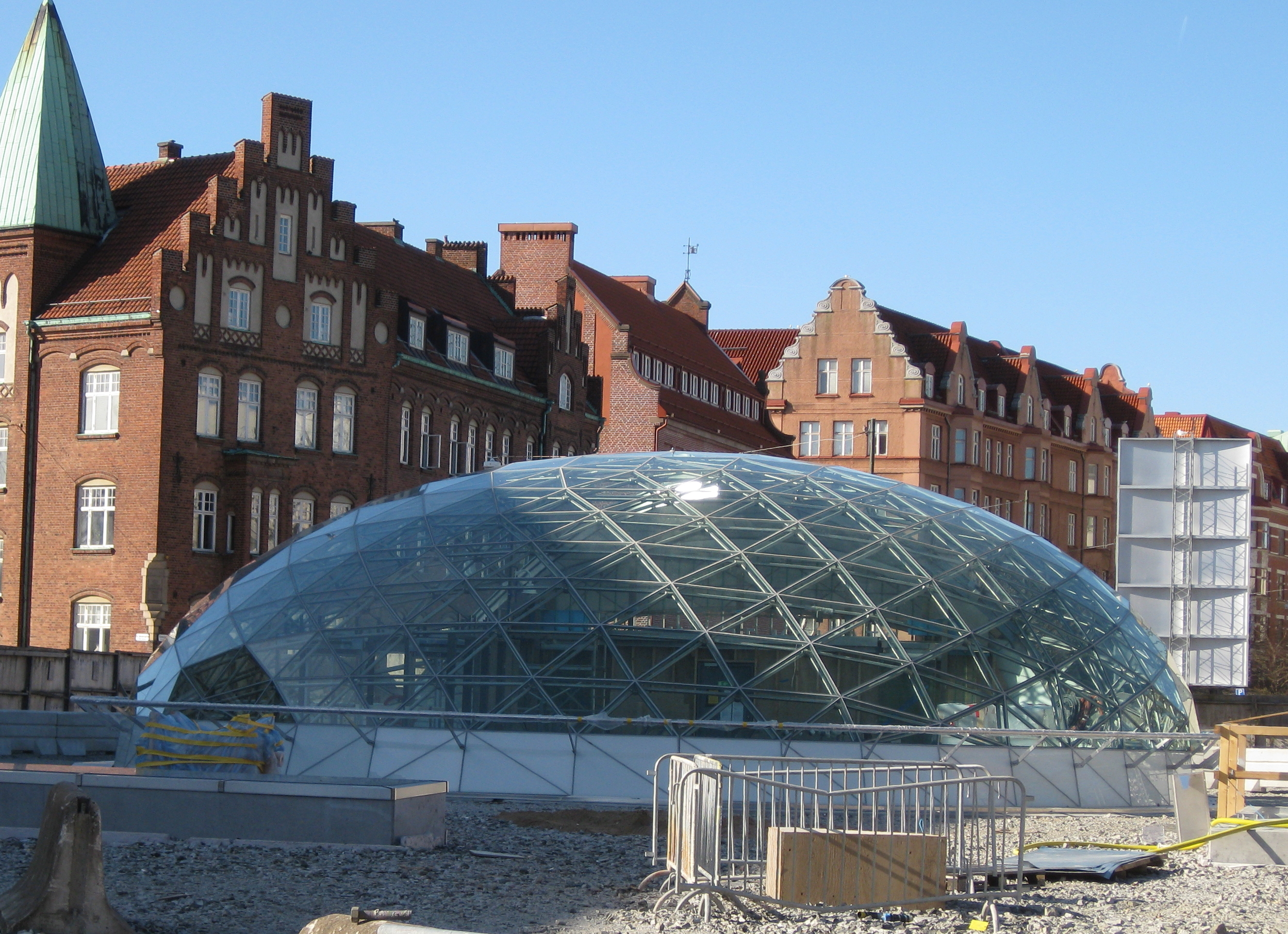 The entrance to the subterrestial railway station at Triangeln, Malmö, being built.